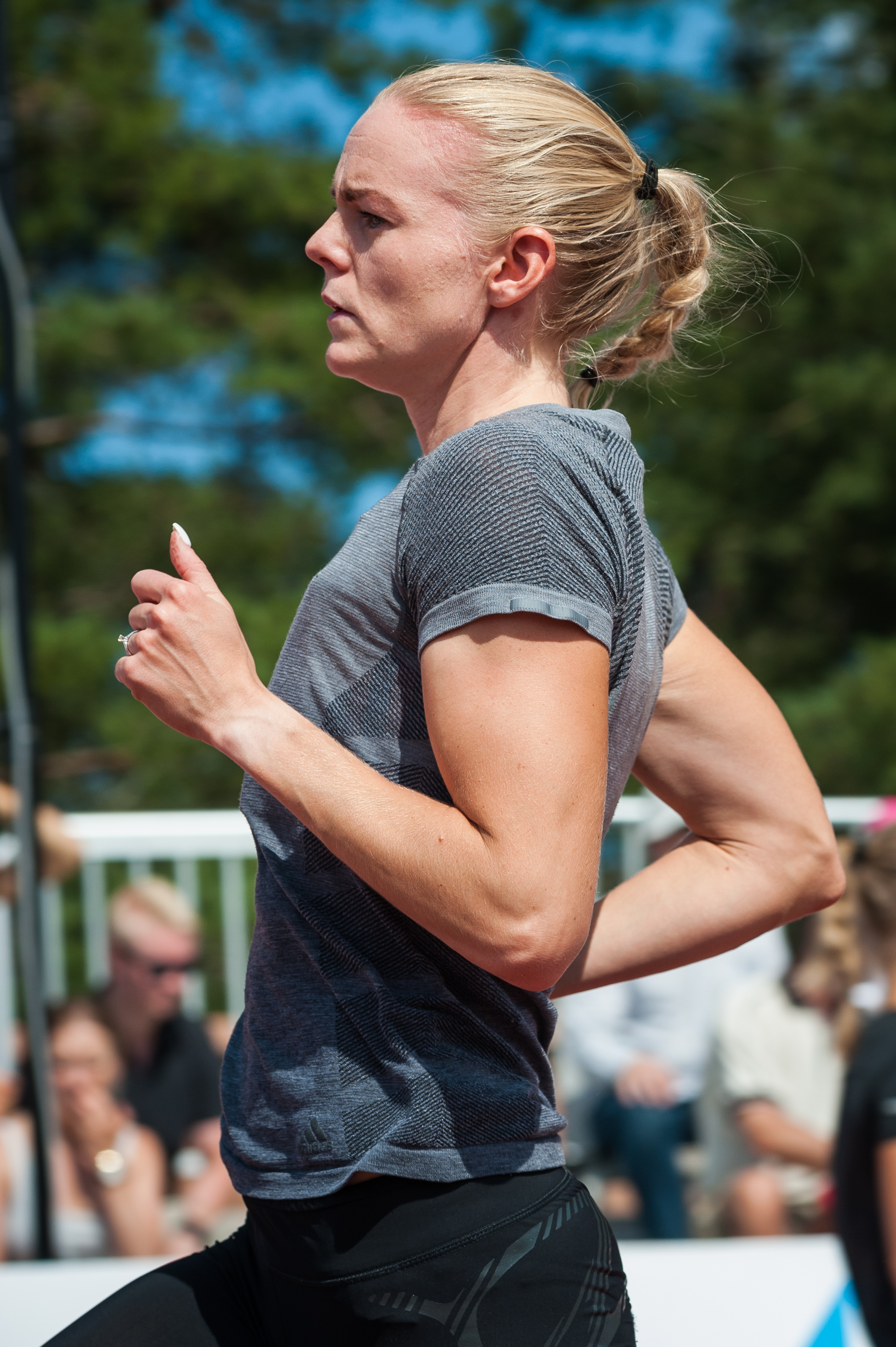 Women's 200 m competition at the 2018 Kalevan Kisat, the Finnish championships in athletics, in Jyväskylä, Finland.